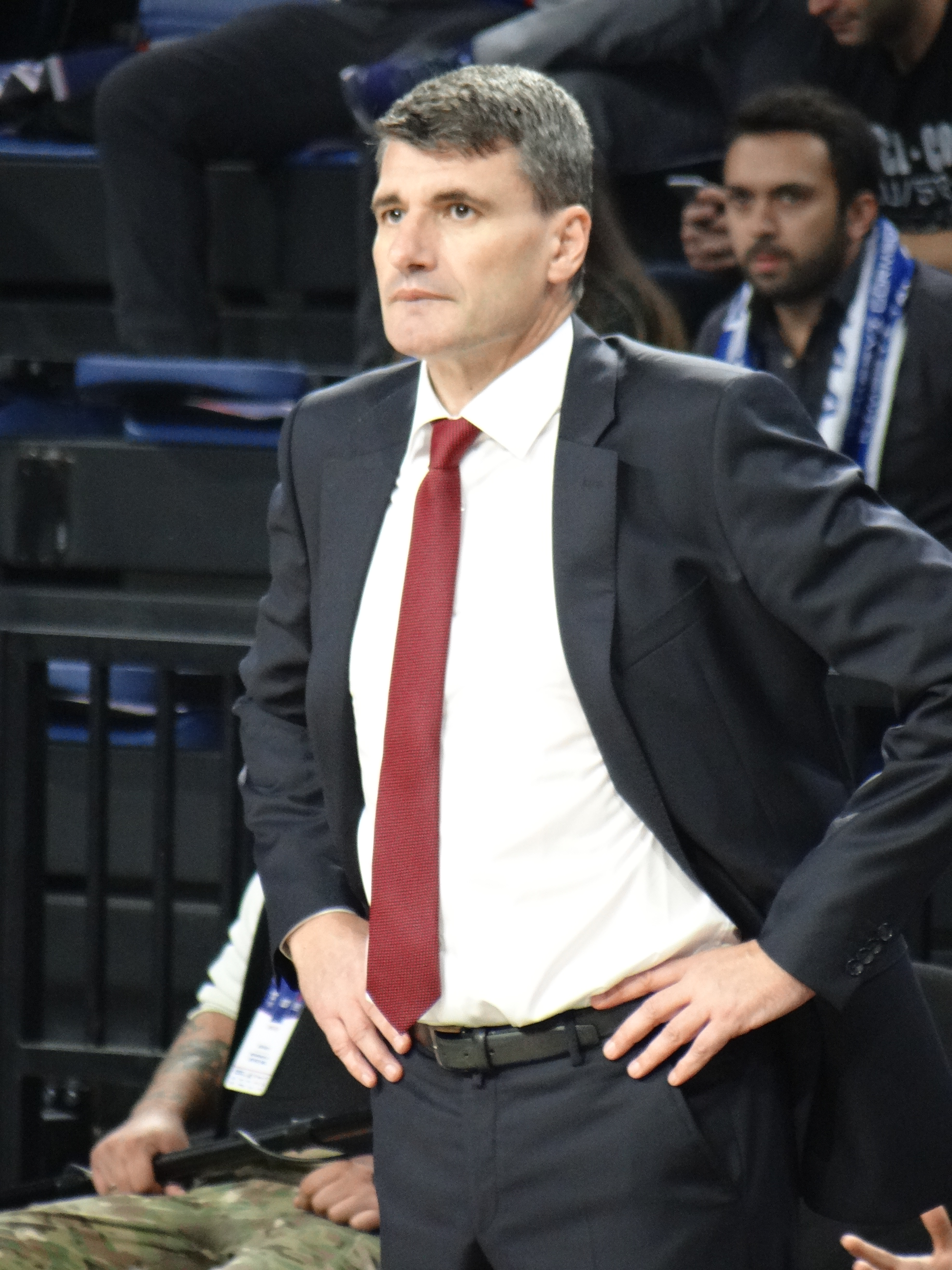 Velimir Perasović Anadolu Efes 20171027